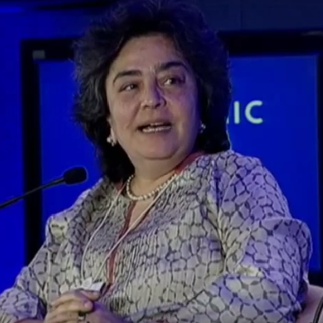 Zia Mody CEO WEF. Zia Mody (born 19 July 1956) is an Indian legal consultant. She is considered an authority on corporate merger and acquisition law, securities law, private equity and project finance